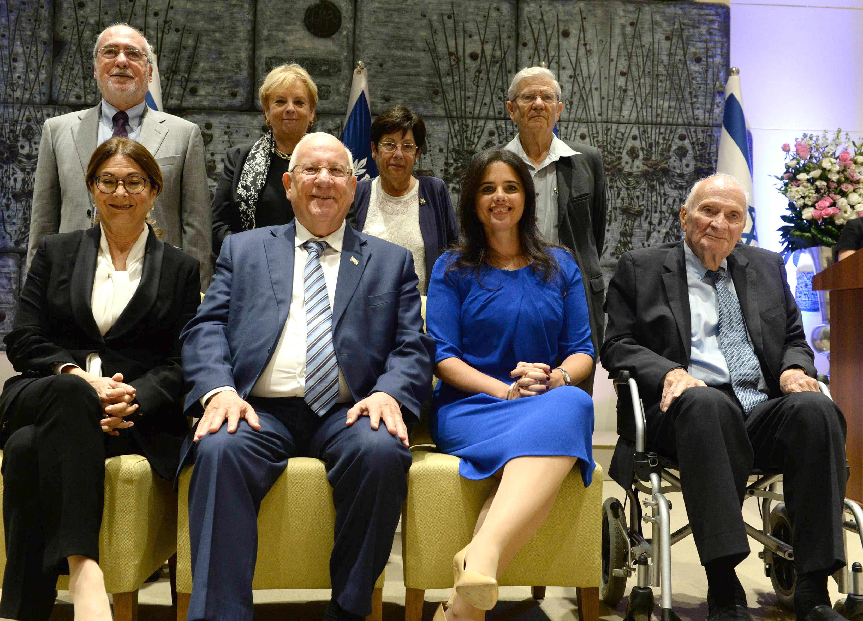 President Reuven Rivlin is swearing in incoming Supreme Court President Esther Hayut at Beit HaNassi. Thursday, October 27, 2017. Photo Credit: Mark Neyman / GPO.